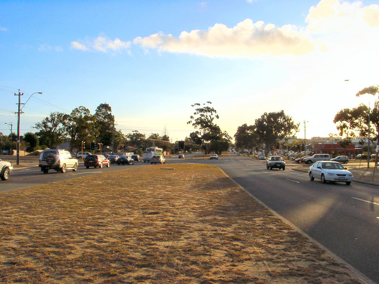 Intersection of Beach Road and Erindale Road looking west. Beach Road runs east-west, Erindale Road north-south.